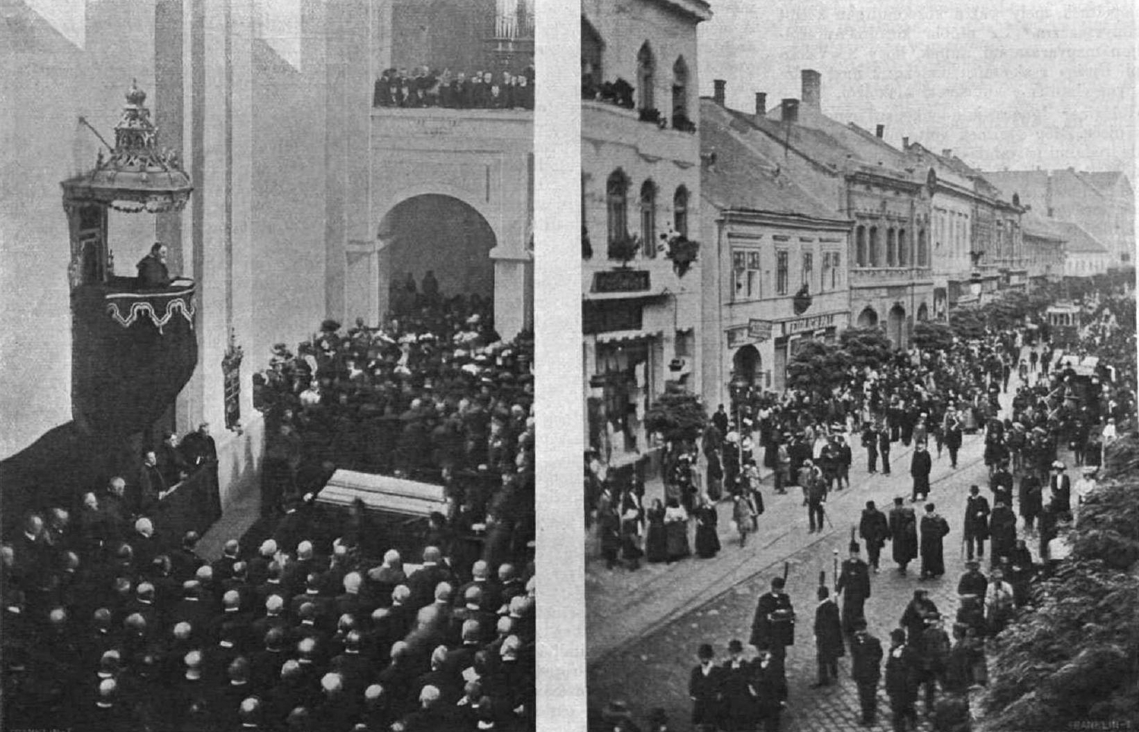 Funeral of Bertalan Kun in Miskolc